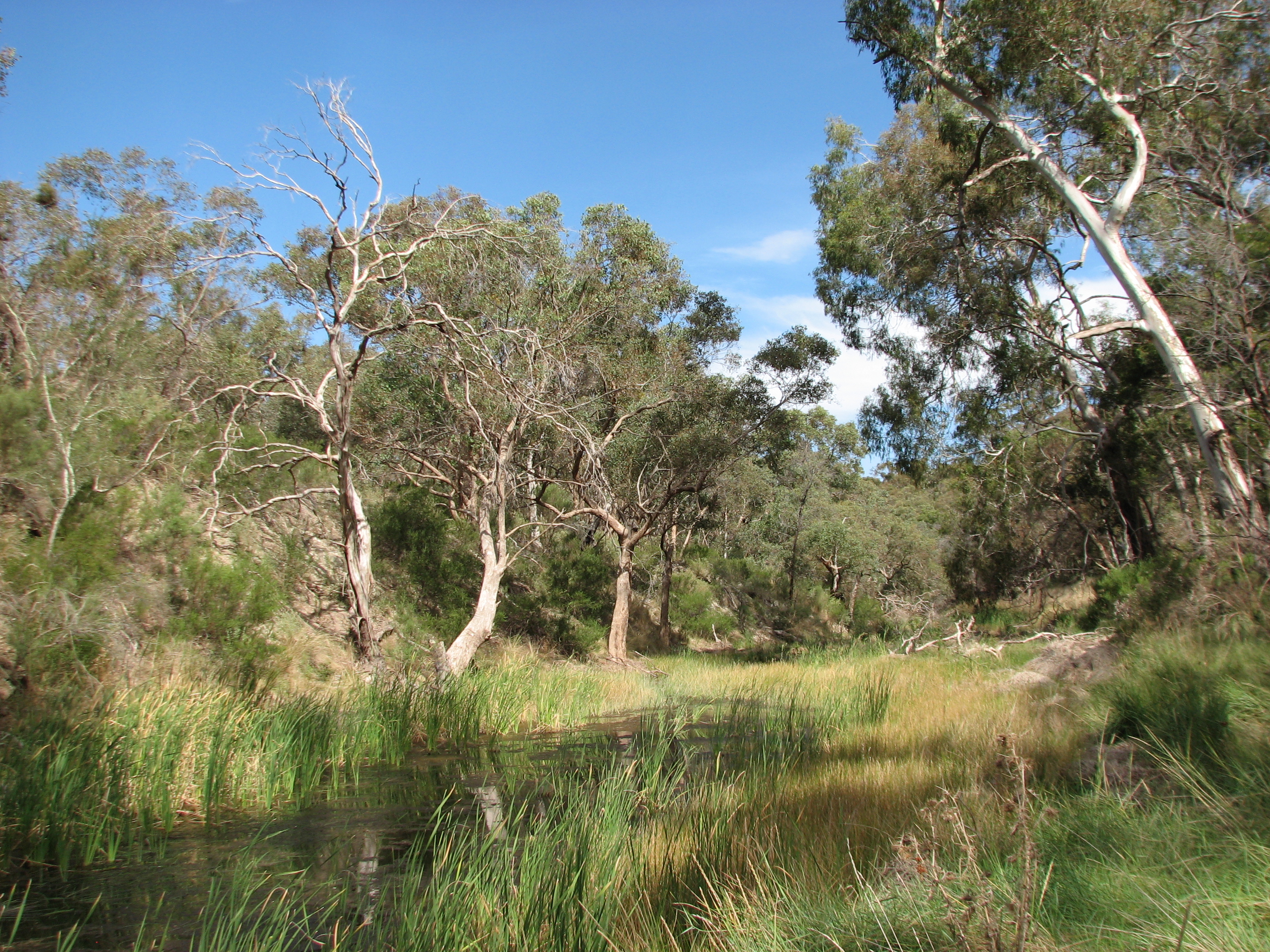 Long Forest Nature Conservation Reserve, Victoria, Australia